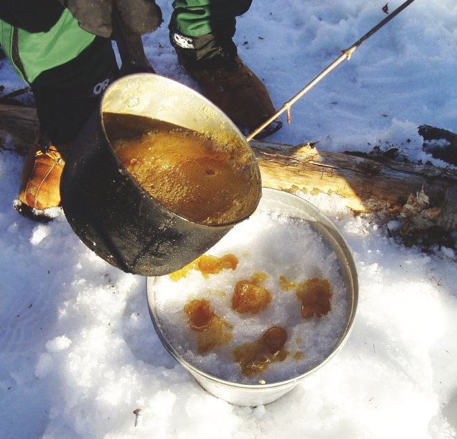 Maple toffee being made in West Quebec. Taken by SimonP in March 2003.